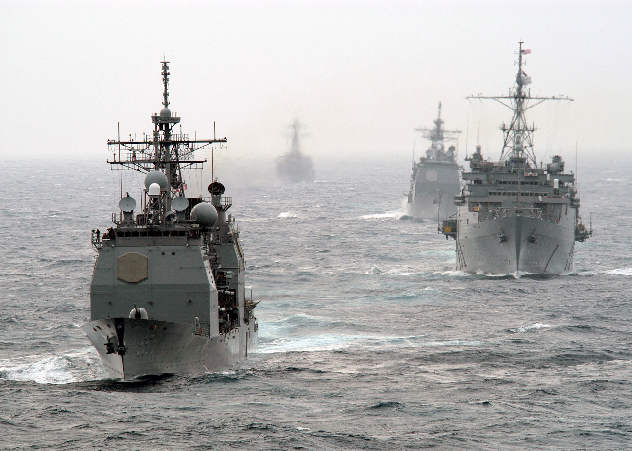 Atlantic Ocean (Feb. 22, 2004) – The guided missile cruiser USS Leyte Gulf (CG 55), amphibious transport ship USS Shreveport (LPD 12), guided missile cruiser USS Yorktown (CG 48) and the guided missile destroyer USS McFaul (DDG 74) practice coming alongside for replenishments at sea while transiting the Atlantic Ocean as part of the amphibious assault ship USS Wasp (LHD 1) Expeditionary Strike Group (ESG). Other elements of the Wasp ESG include the dock landing ship USS Whidbey Island (LSD 41), the fast attack submarine USS Connecticut (SSN 22), and the 22nd Marine Expeditionary Unit (22 MEU). U.S. Navy photo by Photographer’s Mate 1st Class James E. Perkins. (RELEASED)